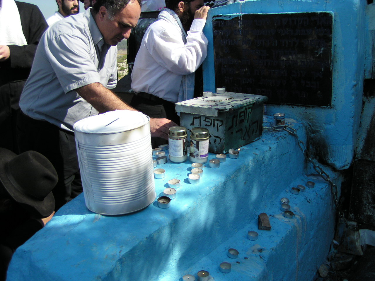 Grave of Isaac Luria in Safed, Israel